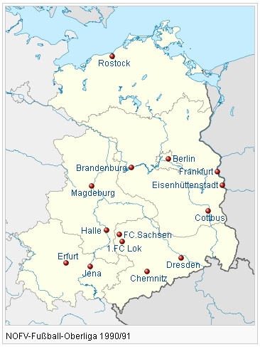 Location map of New states of Germany (New Länder + Great-Berlin) with waterbodies Equirectangular projection, N/S stretching 150 %. Geographic limits of the map: * N: 54.825° N * S: 50.043° N * W: 9.616° E * E: 15.413° E